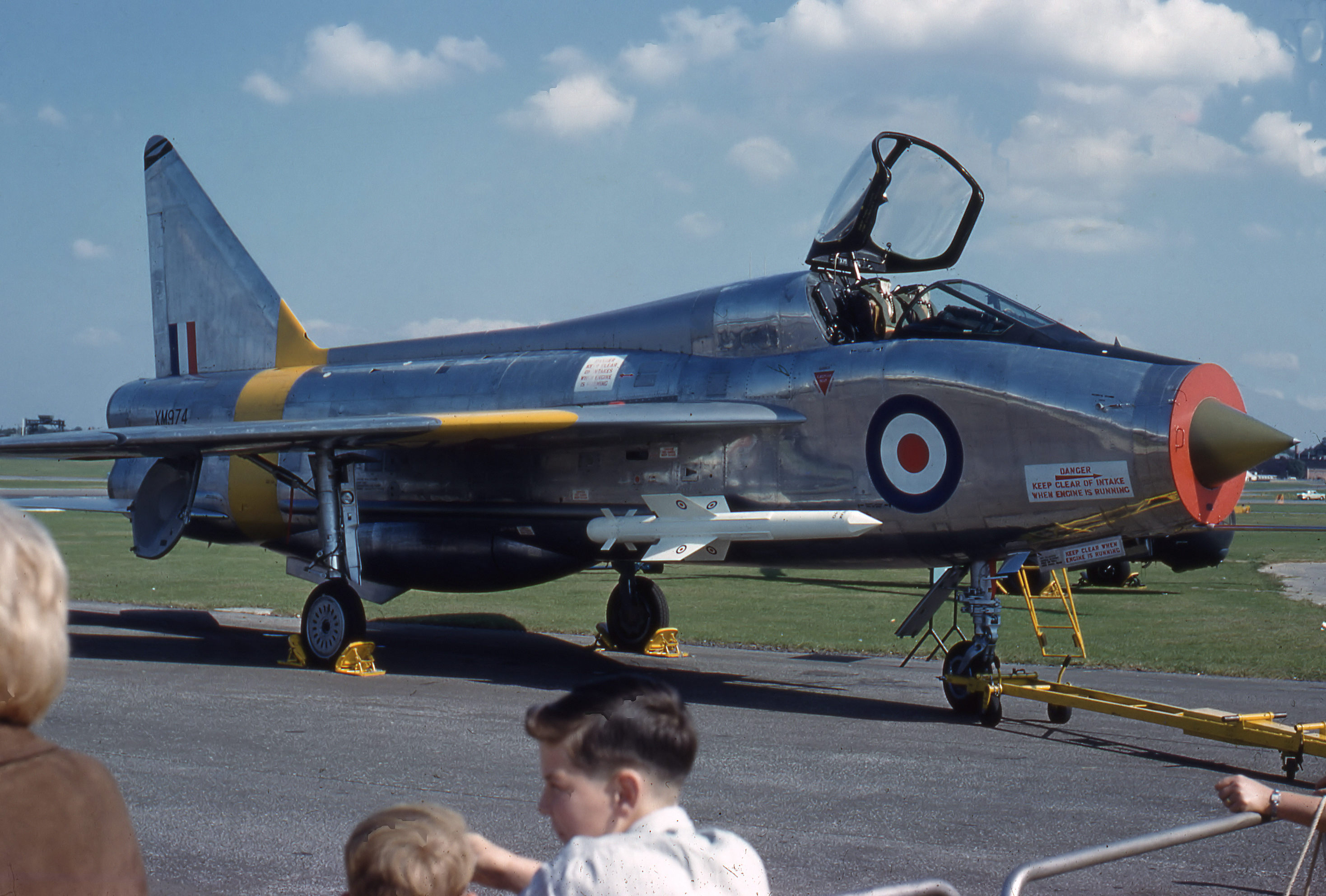 English Electric Lightning T4 two-seat side-by-side training version (based on the F1A) at Farnborough Air Show.